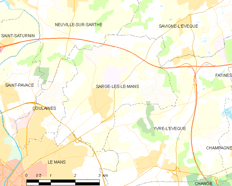 Map of French municipality